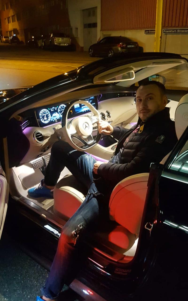 Photo